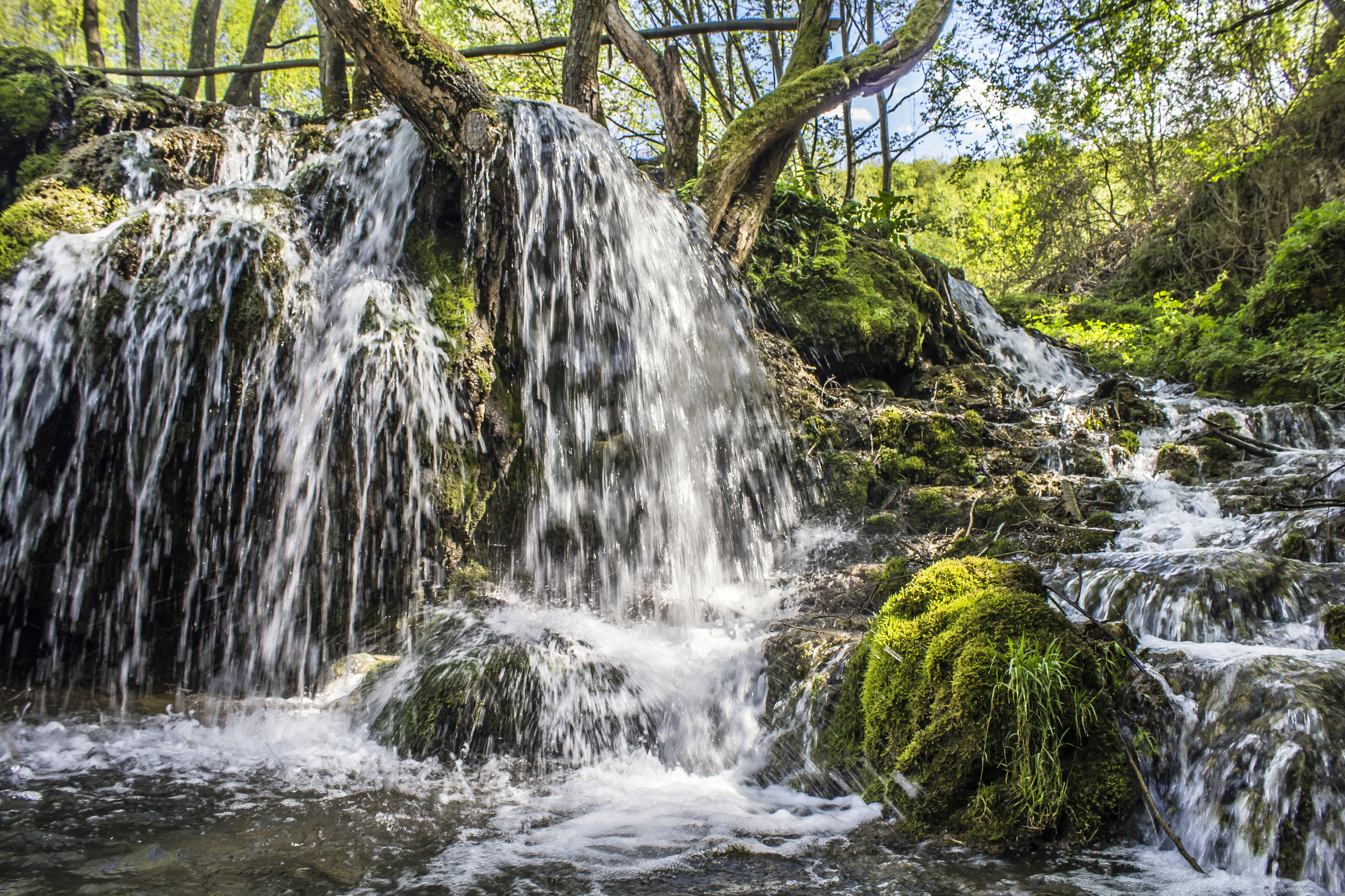 Споменик природе Таорска врела Ово је фотографија заштићеног природног добра у Србији под шифром: СП232 This is a a photo of a natural area in Serbia with ID: СП232